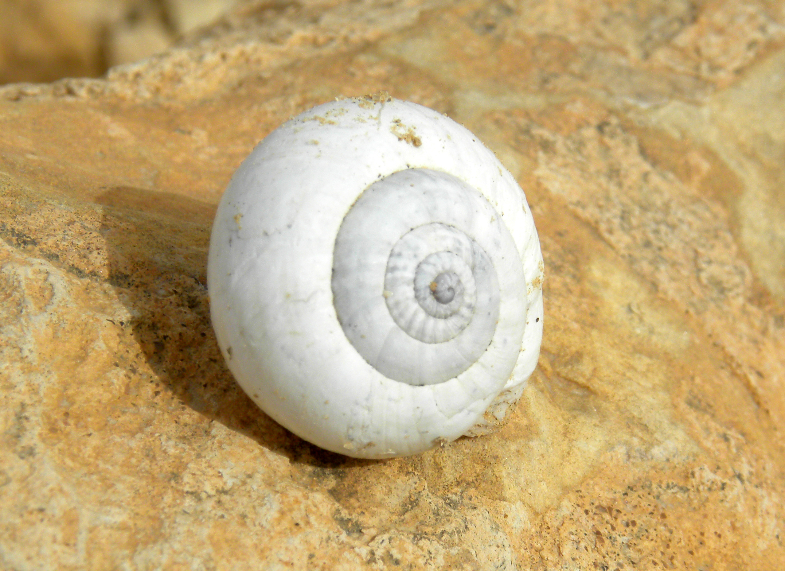 Sphincterochila boissieri, a terrestrial snail in the Negev of southern Israel. Diameter is 2.1 centimeters.